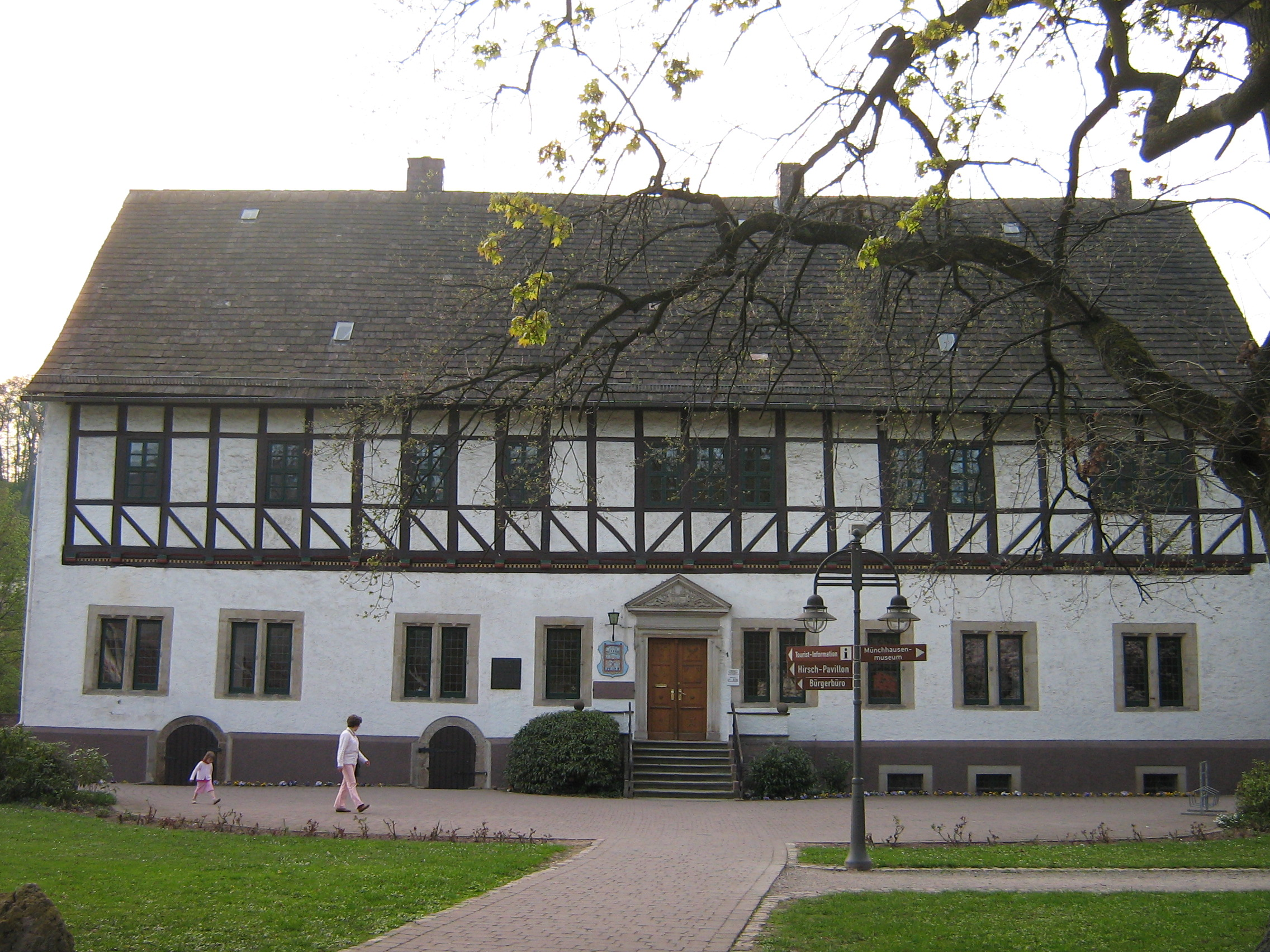 City Hall of Bodenwerder, Lower Saxonia, Germany. The house where Baron Münchhausen was born